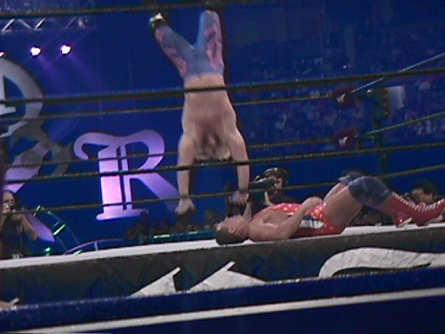 Kurt Angle and Chris Jericho at the WWF King of the Ring at the Fleet Center in Boston, MA in 2000 - WWE